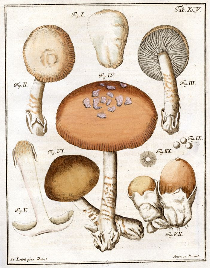 illustration of Amanita fulva